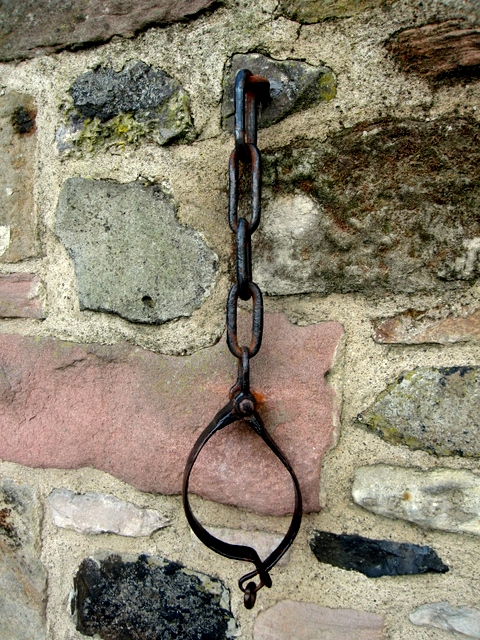 Duddingston Parish Church Jougs A Scottish Act of Parliament issued in 1593 pronounced that prisons, stocks and jougs (irons) were to be provided at every Parish Kirk, so that idle beggers and wrongdoers could be placed in penitence, and so that those attending Sunday services could see them in their place of shame. The jougs by which people were clamped to the kirkyard wall by the neck are still in place at Duddingston Village on the outskirts of Edinburgh.